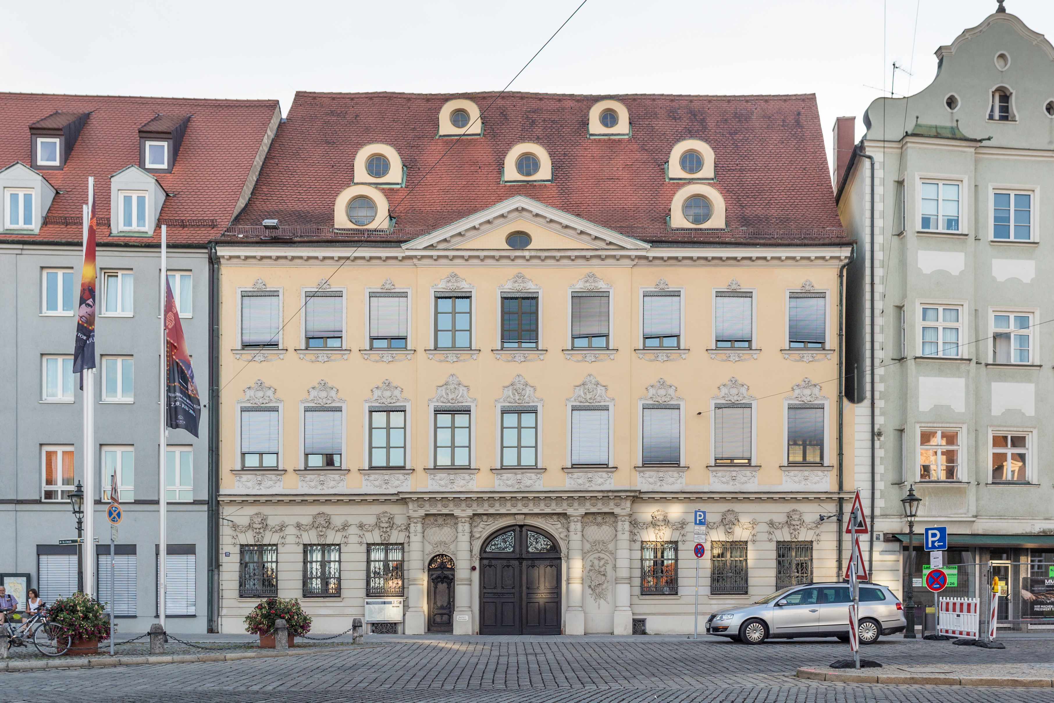 Martini-Palais, Augsburg in the evening.